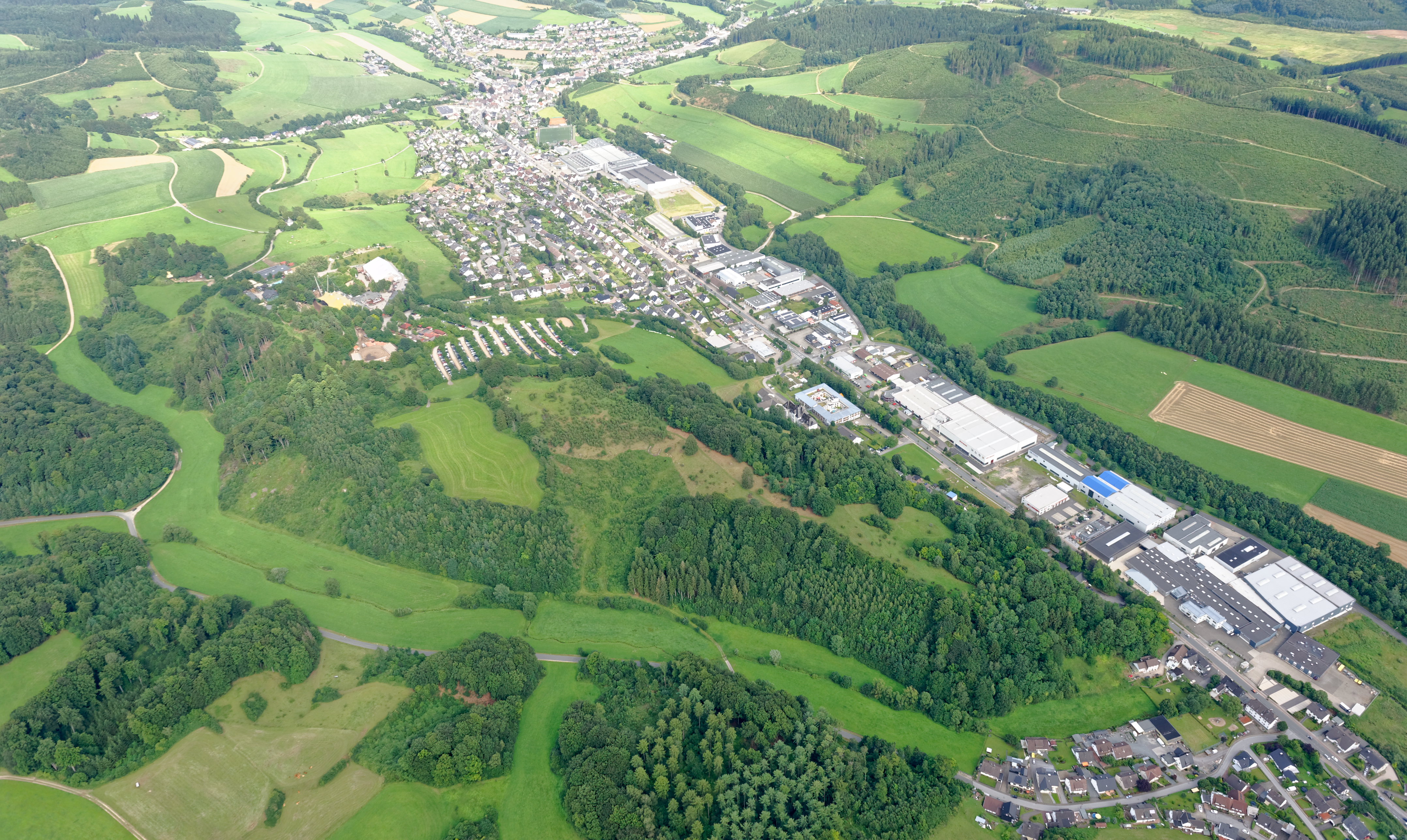 Elspe mit Gelände des Elspe Festivals beim Sauerland Fotoflug-West vom Wikipedia-Projekt Sauerland überflogen und links das Naturschutzgebiet Melbecke und Rübenkamp, The making of this document was supported by the Community-Budget of Wikimedia Germany.